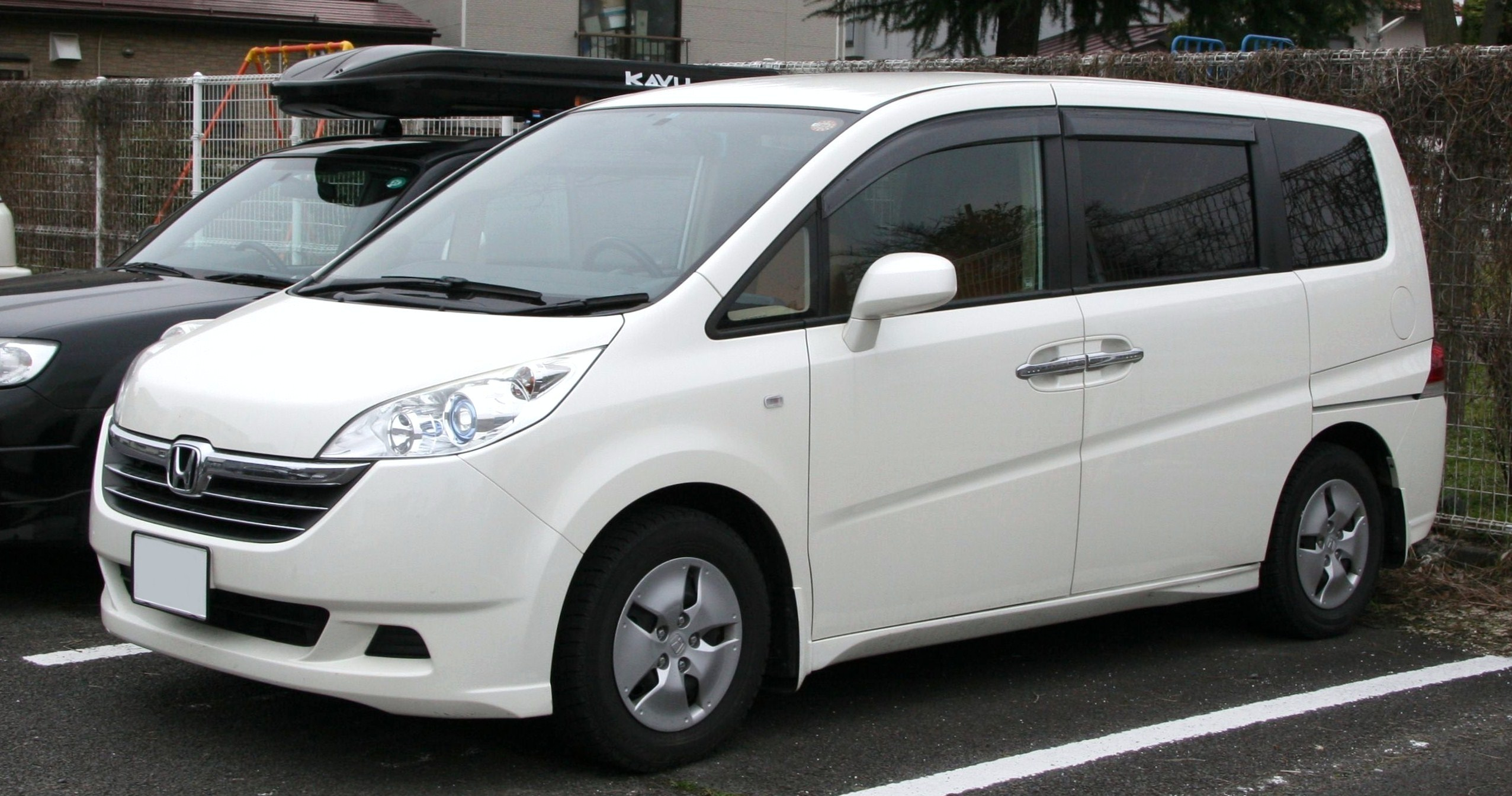 Honda Step WGN